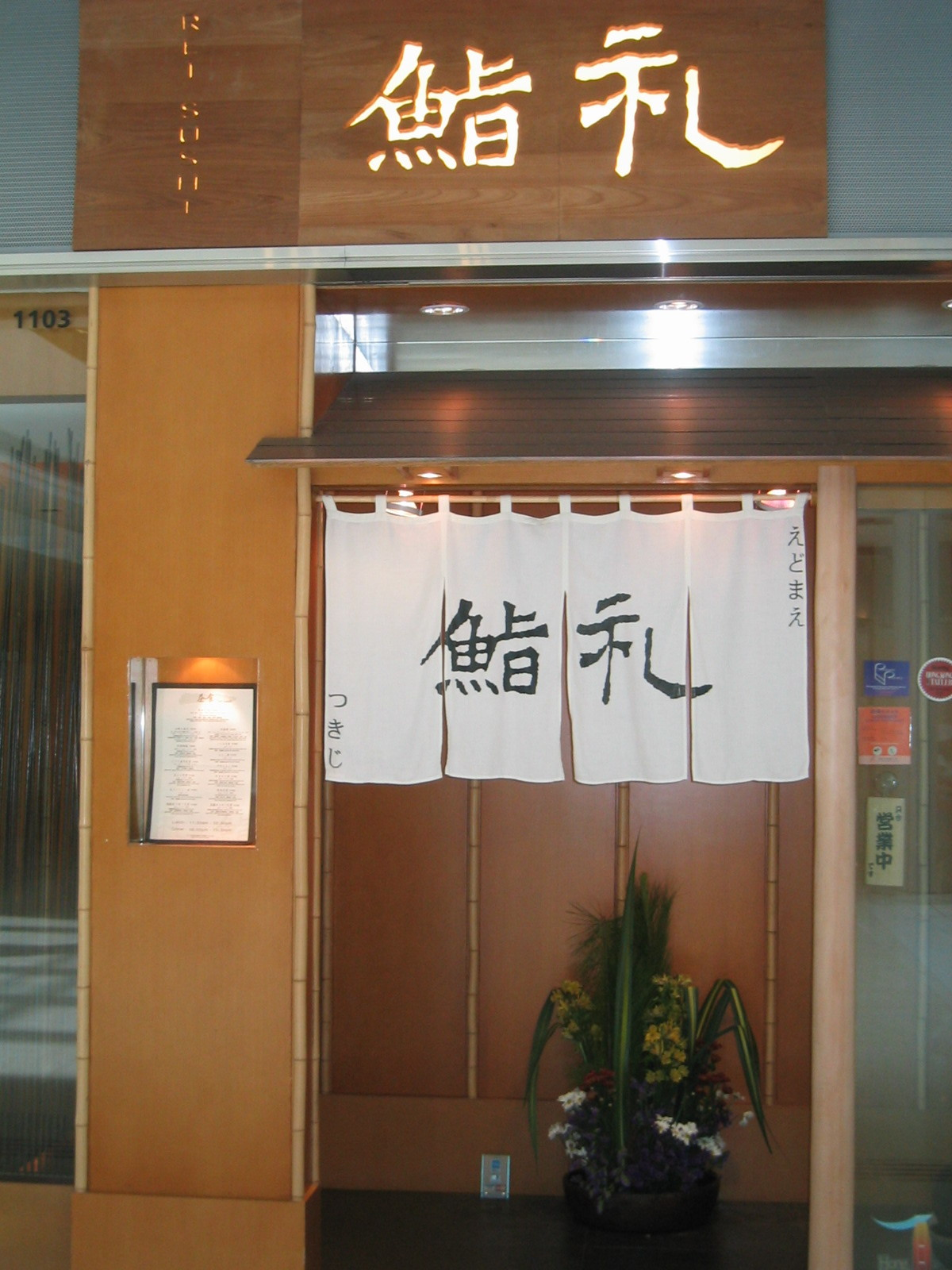 A Japanese restaurant in Central, Hong Kong. The kanji 鮨, as shown in the picture, is an example of kokuji (国字), i.e, characters made in Japan, not borrowed from China. It is pronounced "sushi". Another way to write "sushi" is 寿司, an example of ateji (当て字), i.e. Chinese characters used phonetically regardless of their meanings